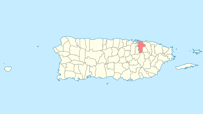 Municipal locator of Puerto Rico